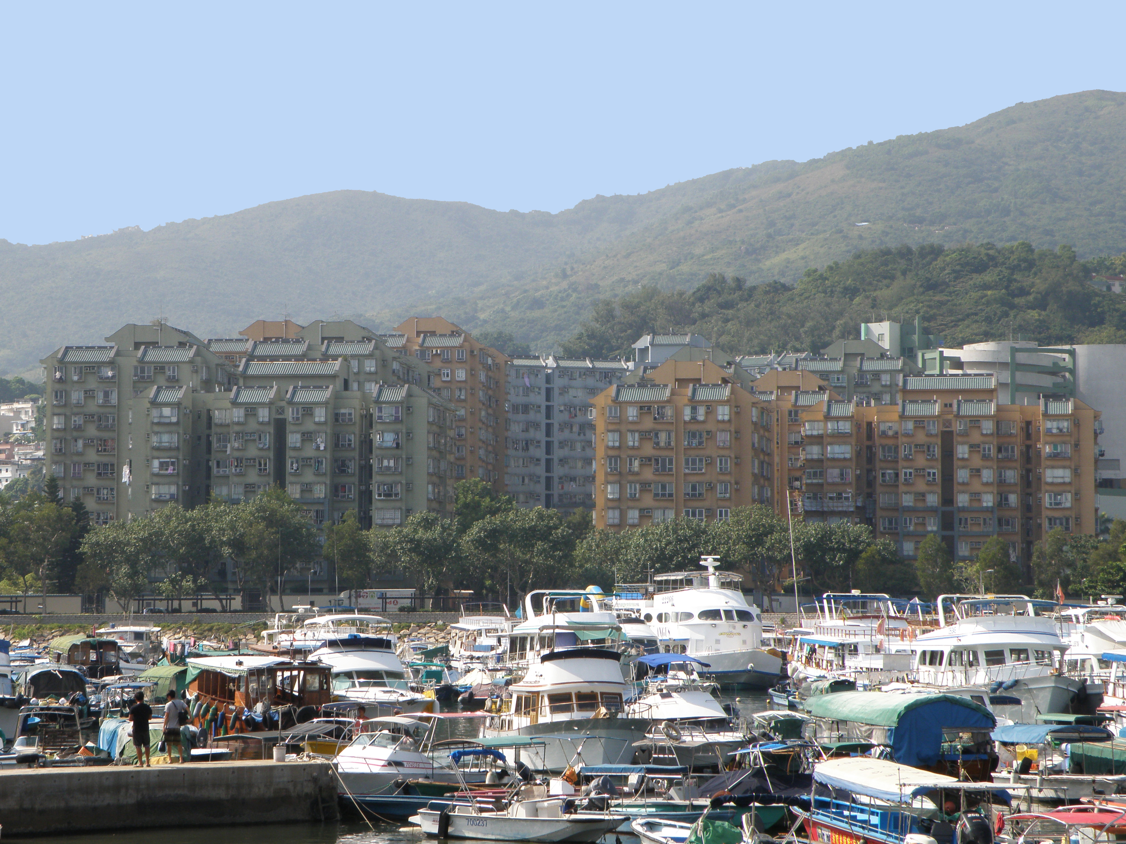 Lakeside Garden in Sai Kung, Hong Kong